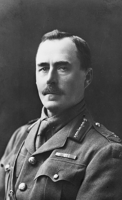 Portrait of Brigadier General James Heane, General Officer Commanding 2nd Infantry Brigade AIF, in circa 1917.